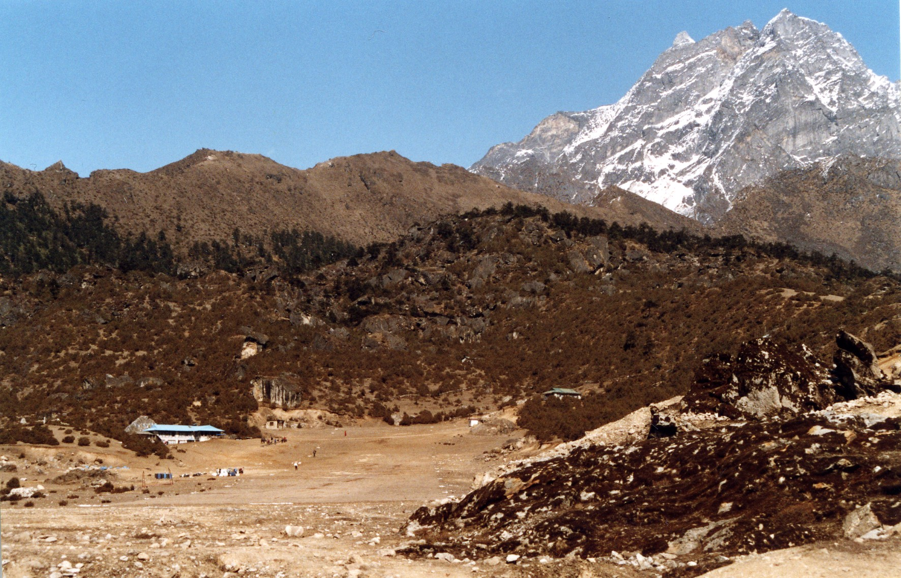 Syangboche airstrip in the Khumbu region (Nepal)